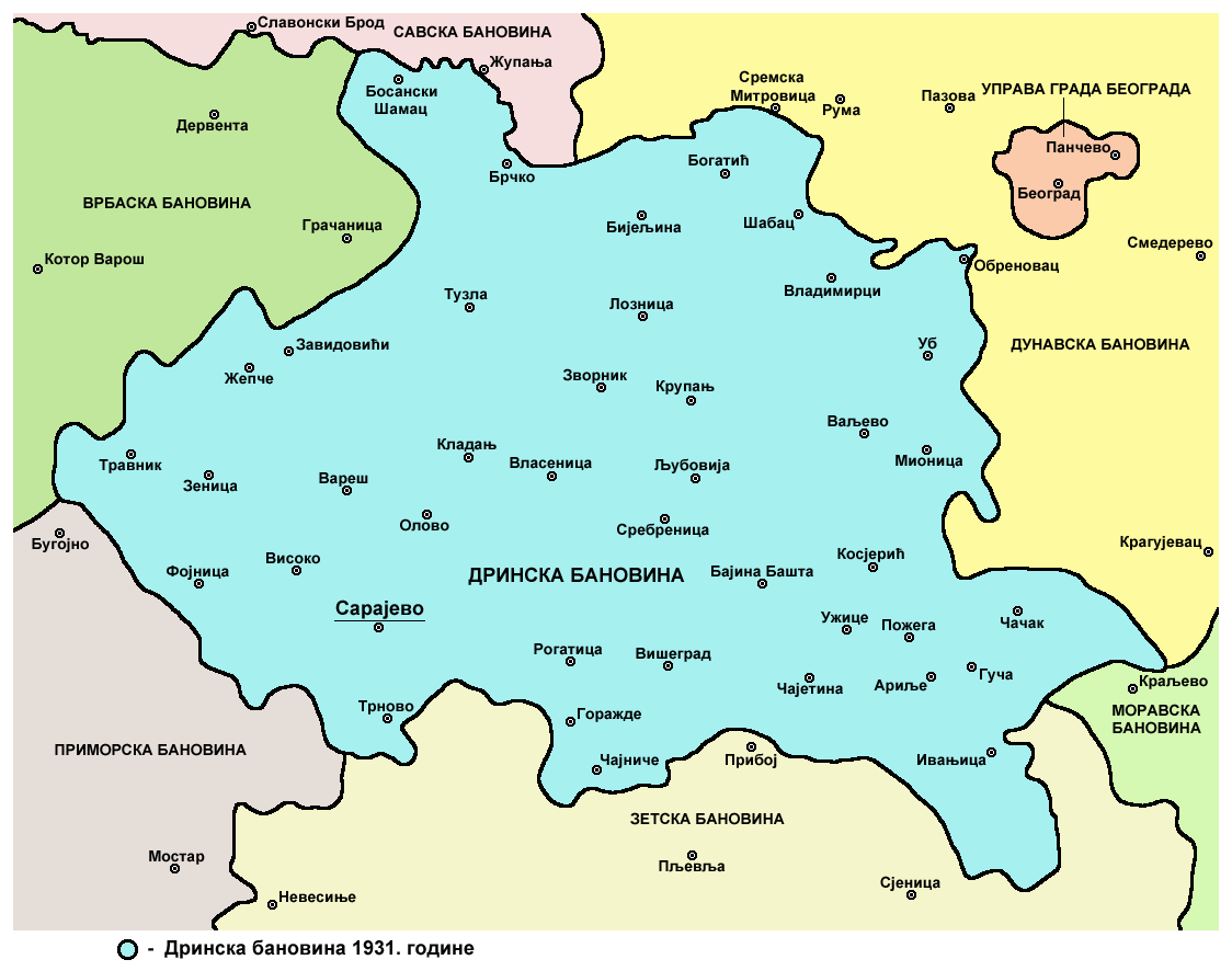 Drina banovina (province) of the Kingdom of Yugoslavia in 1931.